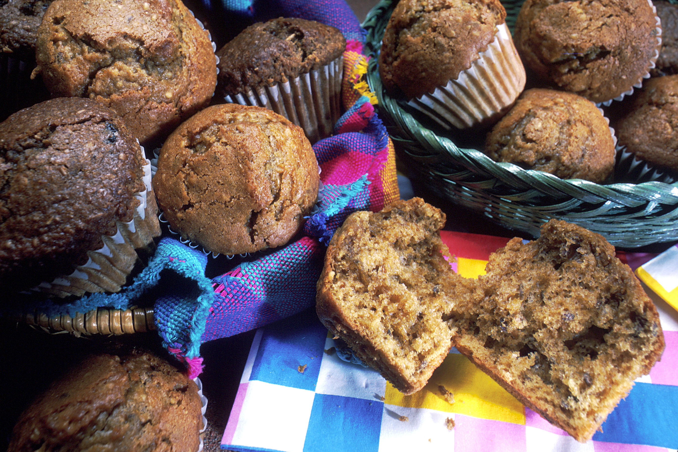 2 wicker baskets full of muffins sit on a blue, pink and white checkered tablecloth in a tight shot. There is a muffin split in half in the foreground.